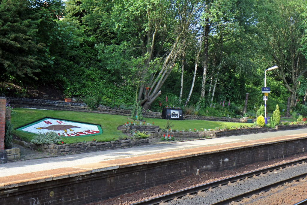 Garden, Hindley railway station